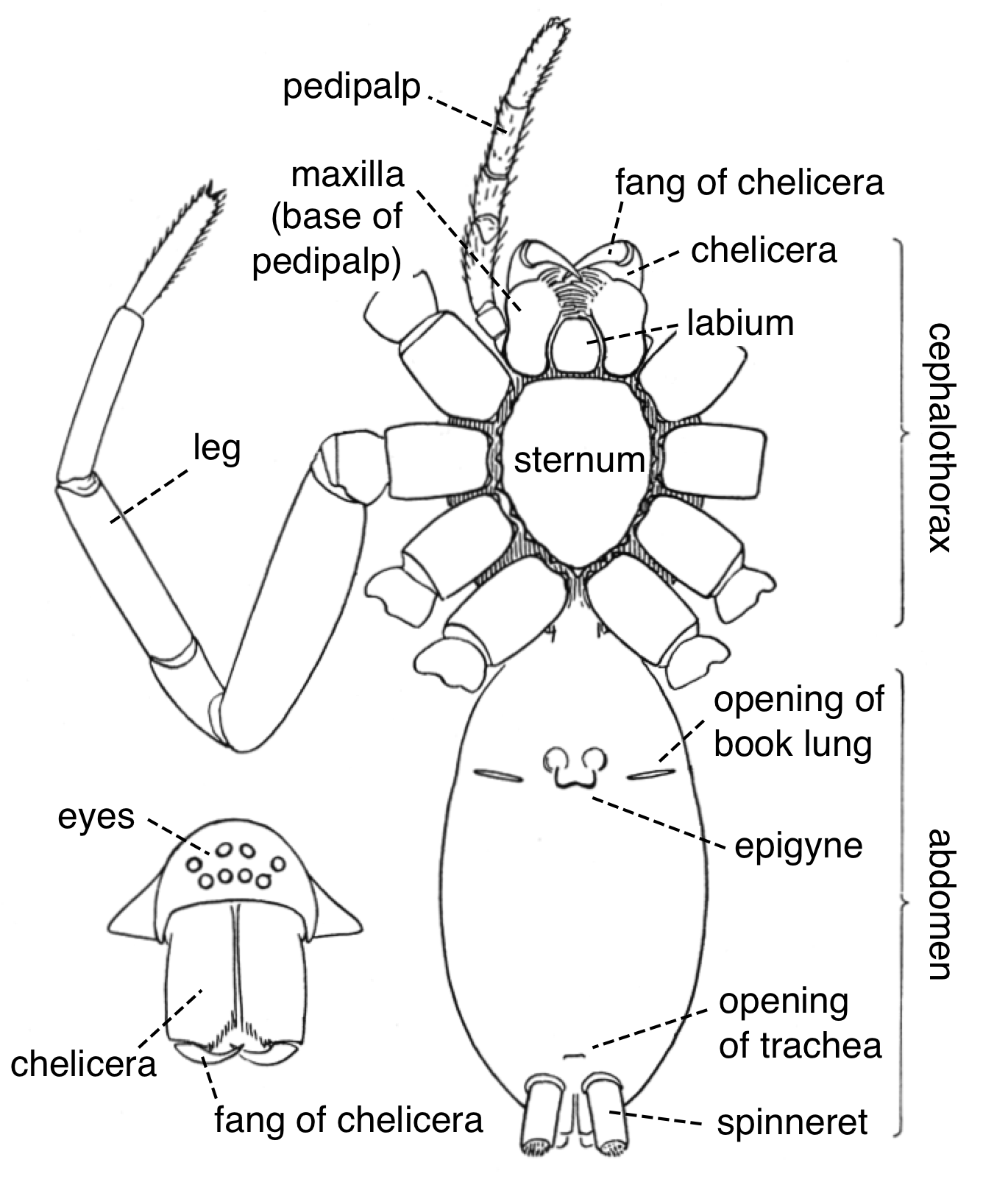 Diagrams of the underside and head of a spider showing the external anatomy; re-labelled from the original, without leg parts